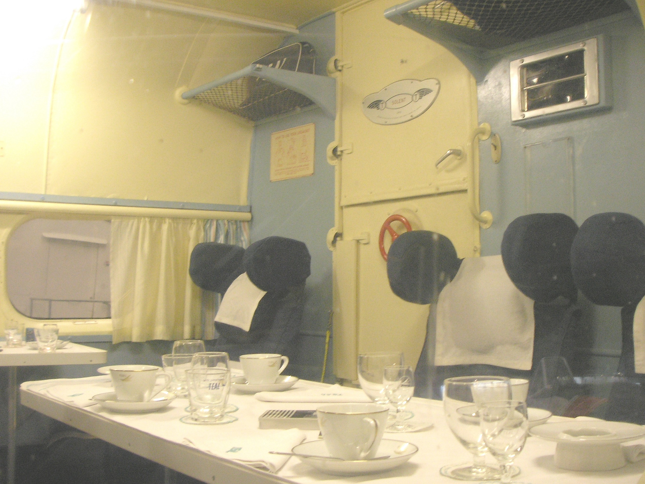 Interior of Short Solent Flying Boat, of TEAL photographed at the Museum of Transport and Technology in Auckland